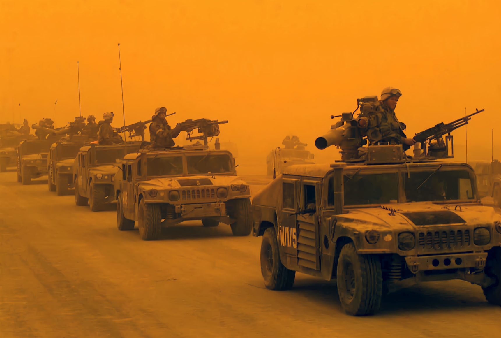 A convoy of U.S. Marine Corps (USMC) High-Mobility Multipurpose Wheeled Vehicles (HMMVW), assigned to D/Company, 1st Light Armored Reconnaissance Battalion, 1st Marines Division, arrives in Northern Iraq, during a sandstorm. USMC personnel are in Iraq in support of Operation IRAQI FREEDOM. Several vehicles are equipped with Tube-launched Optically-tracked Wire-guided (TOW) missile launchers.